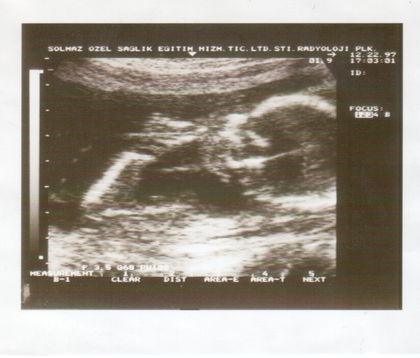 Ultrasound scan. Provided as-is. Please feel free to categorise, add description, crop or rename.